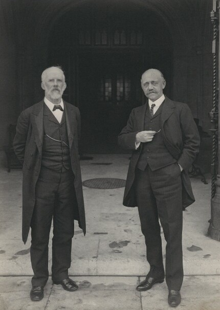 1909 platinum print of Sir Robert Pearce and William Willett (1856-1915) portrayed at United Kingdom: England, London (Members’ Entrance to Terrace, Houses of Parliament, Westminster, London). Given by House of Commons Library, 1974.